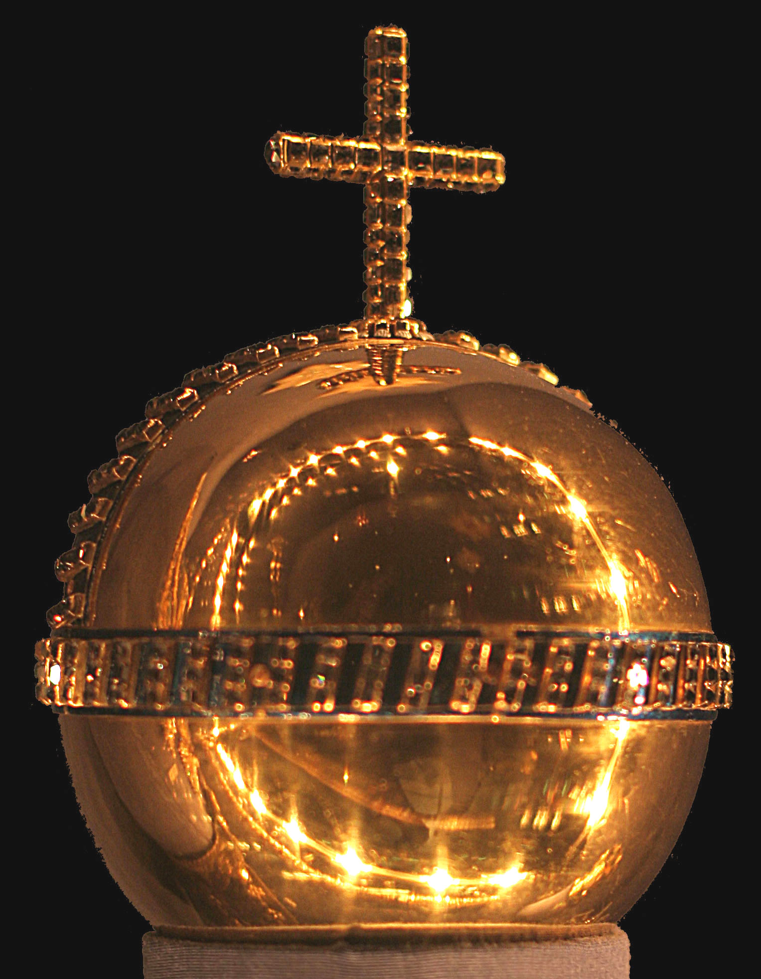 Der dänische Reichsapfel, aufbewahrt im Rosenborg slot Eigenes Bild vom 14. Juli 2005 en:: Danish Globus cruciger, part of the Danish Crown Regalia, representing the earthly realm surmounted by the Christian cross.